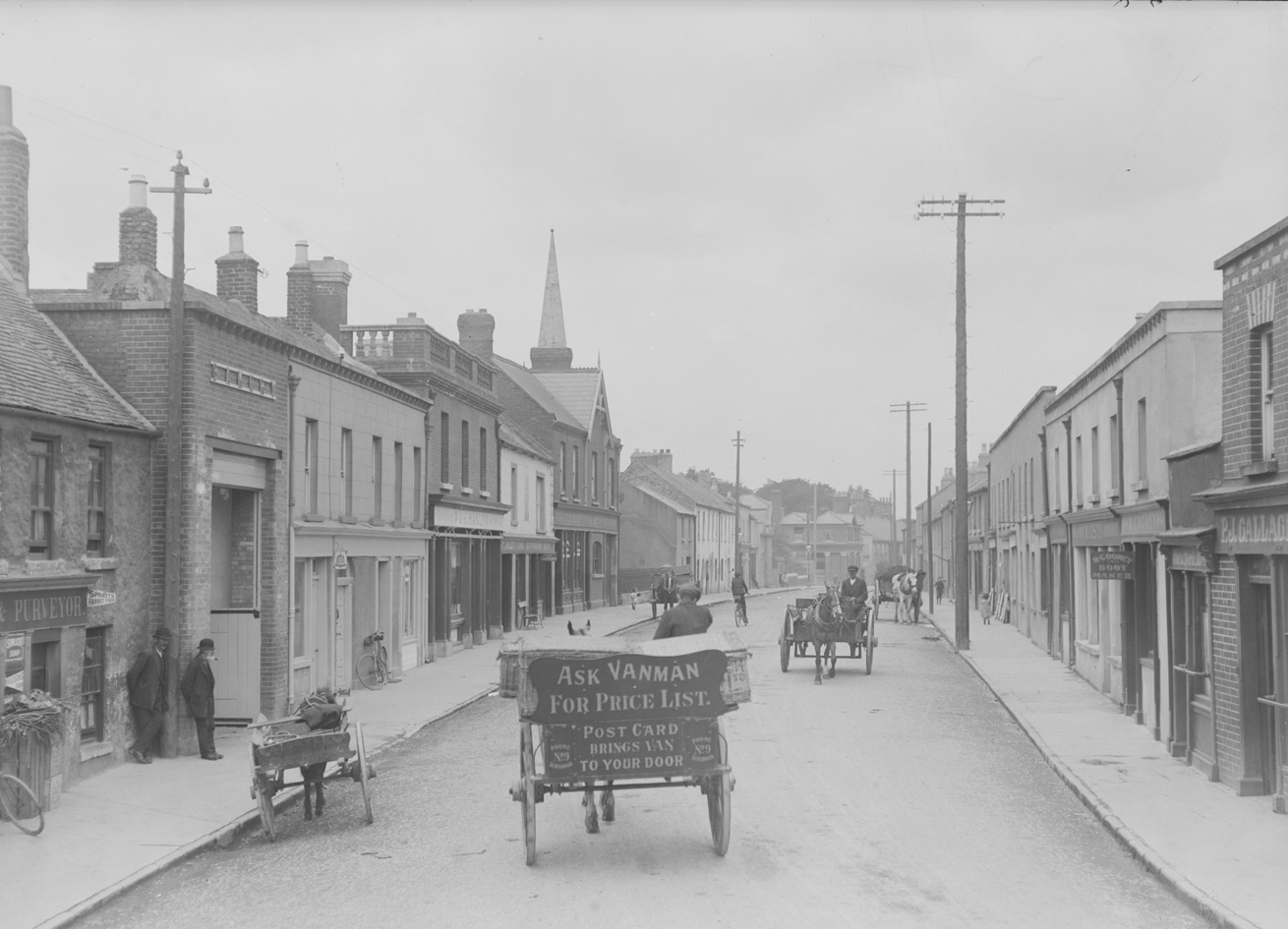 This is Main Street, Rathfarnham in Dublin. Identifiable businesses are a shop proudly announcing that it's a Purveyor of Spratt's Parrot Food, as well as Sunlight and Hudson's Soaps; a bakery; a shop with an NTC or NEC public telephone; P. & J. Hanlon's; C. Jolley & Sons, Rathfarnham Dairy & Select Tea Rooms; Lush's[?]; R. Cooney, Boot Makers; P.J. Gallagher. No idea what was transported on the cart, but there's tantalising information from its signage: "Ask Vanman For Price List. Post Card brings van to your door" and the fact that the business could be reached at "Phone No. 9 Rathfarnham". Date: Circa 1905 NLI Ref.: Eas 1909